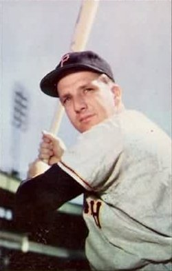 1953 Bowman Color baseball card of Ralph Kiner of the Pittsburgh Pirates #80. PD-not-renewed.